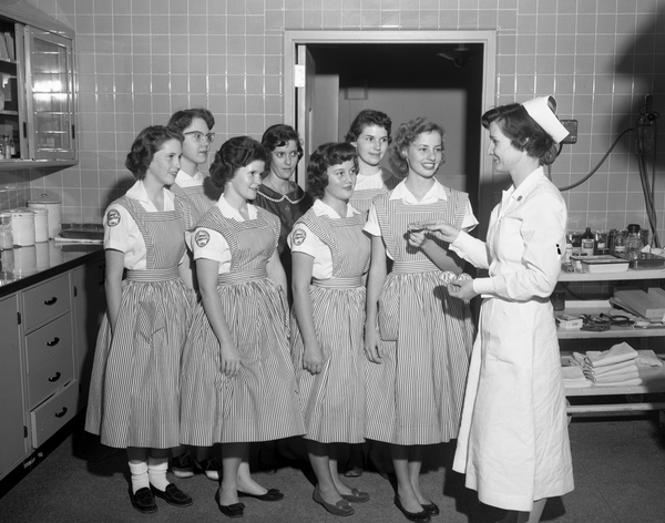 Persistent URL: Local call number: TD00512 Title: Candy Stripers in training in Tallahassee, Florida Date: September 15, 1957 Physical descrip: 1 photonegative - b&w - 4 x 5 in. Series Title: Tallahassee Democrat Collection Repository: State Library and Archives of Florida 500 S. Bronough St., Tallahassee, FL, 32399-0250 USA, Contact: 850.245.6700